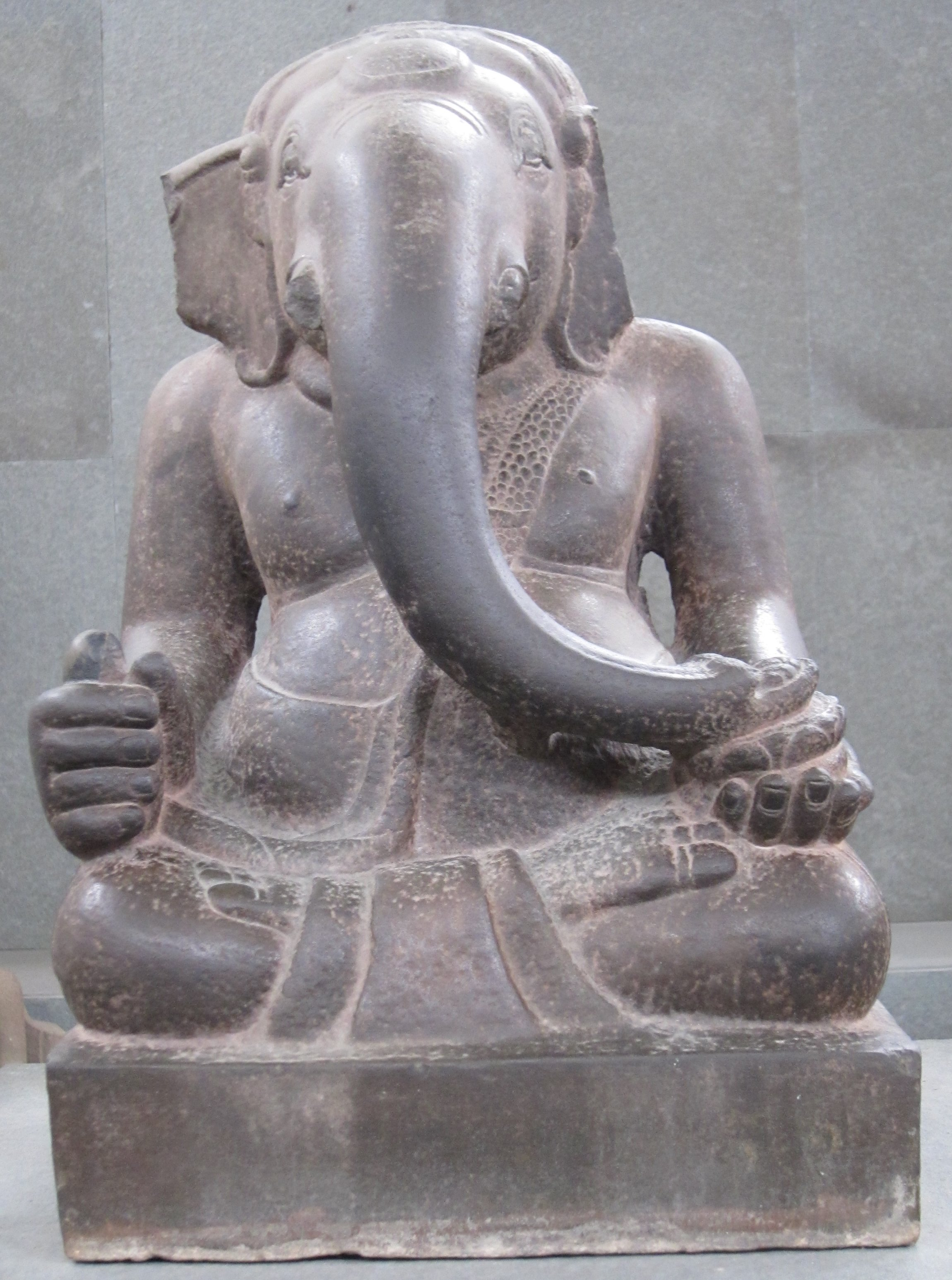 Ganesha, sandstone, 7th-8th century, Museum of Cham Sculpture